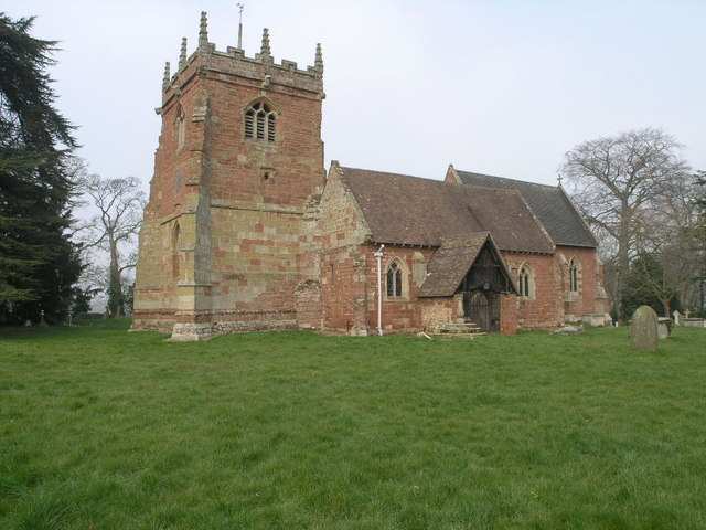 Church at the Top, near to Cound, Shropshire, Great Britain. St Peter's Church in Cound is so close to the northern edge of this square that the trees behind it are in the next square north.